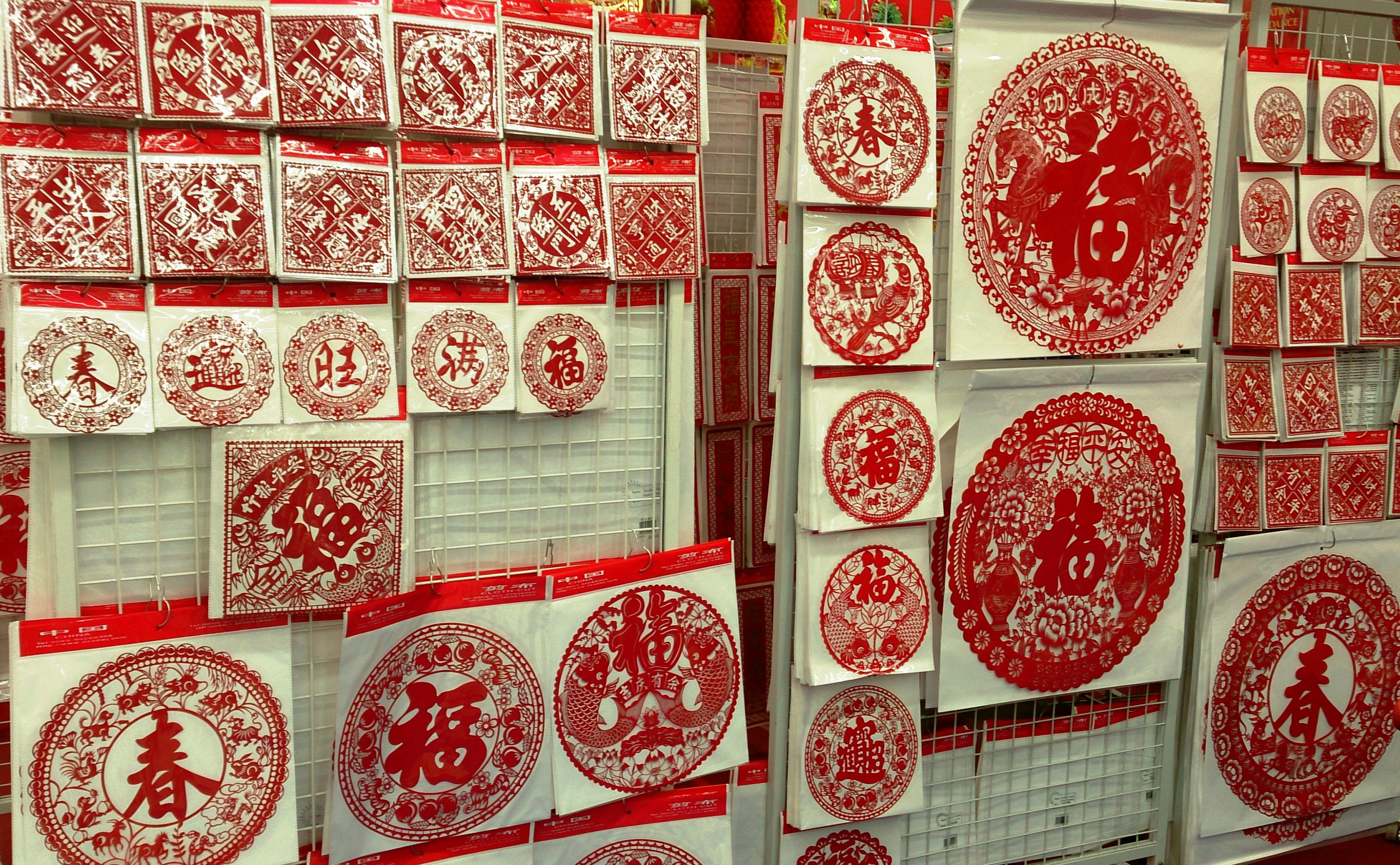 Chinese paper cuttings, with lucky words in Chinese for the Chinese New Year.